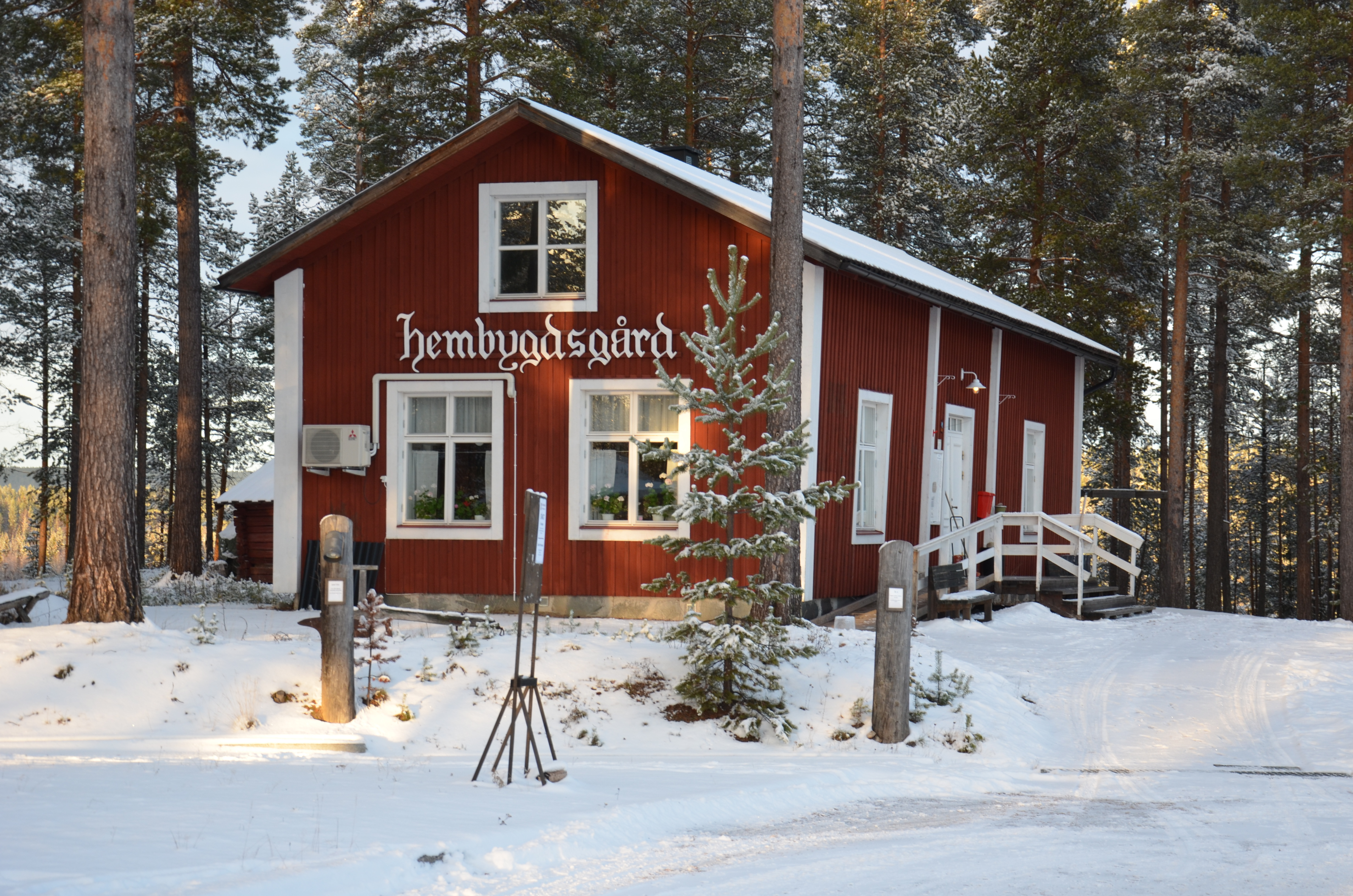 Vuollerim hembygdsgård